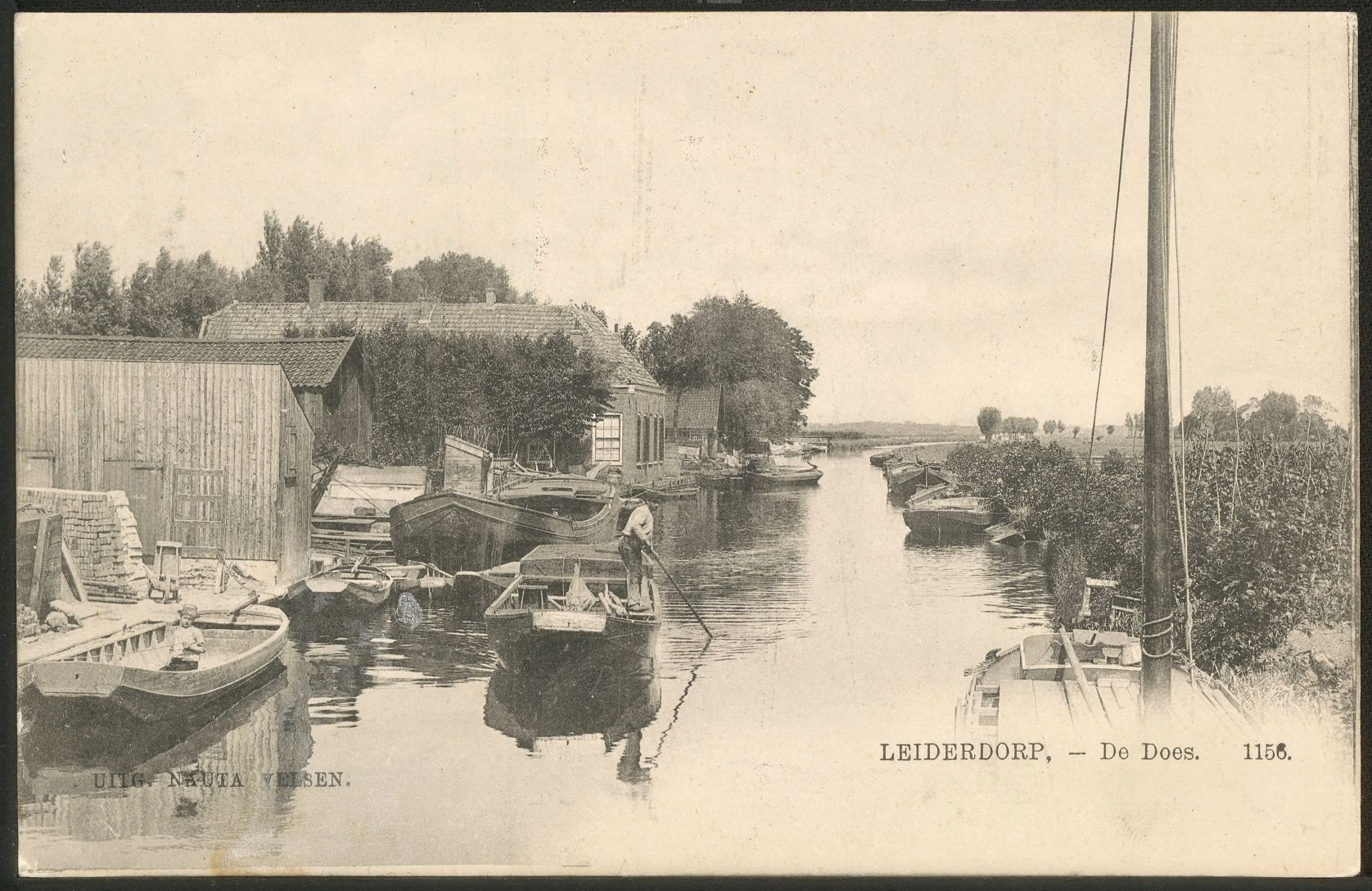 The river Does in Leiderdorp, looking north-east from Main Street, around 1900 (Province of South-Holland, Netherlands).